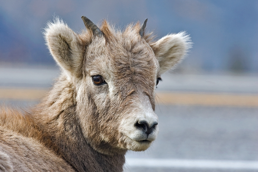 Big Horn Sheep (Juvenile), Yellowhead Highway, North of Jasper, Alberta